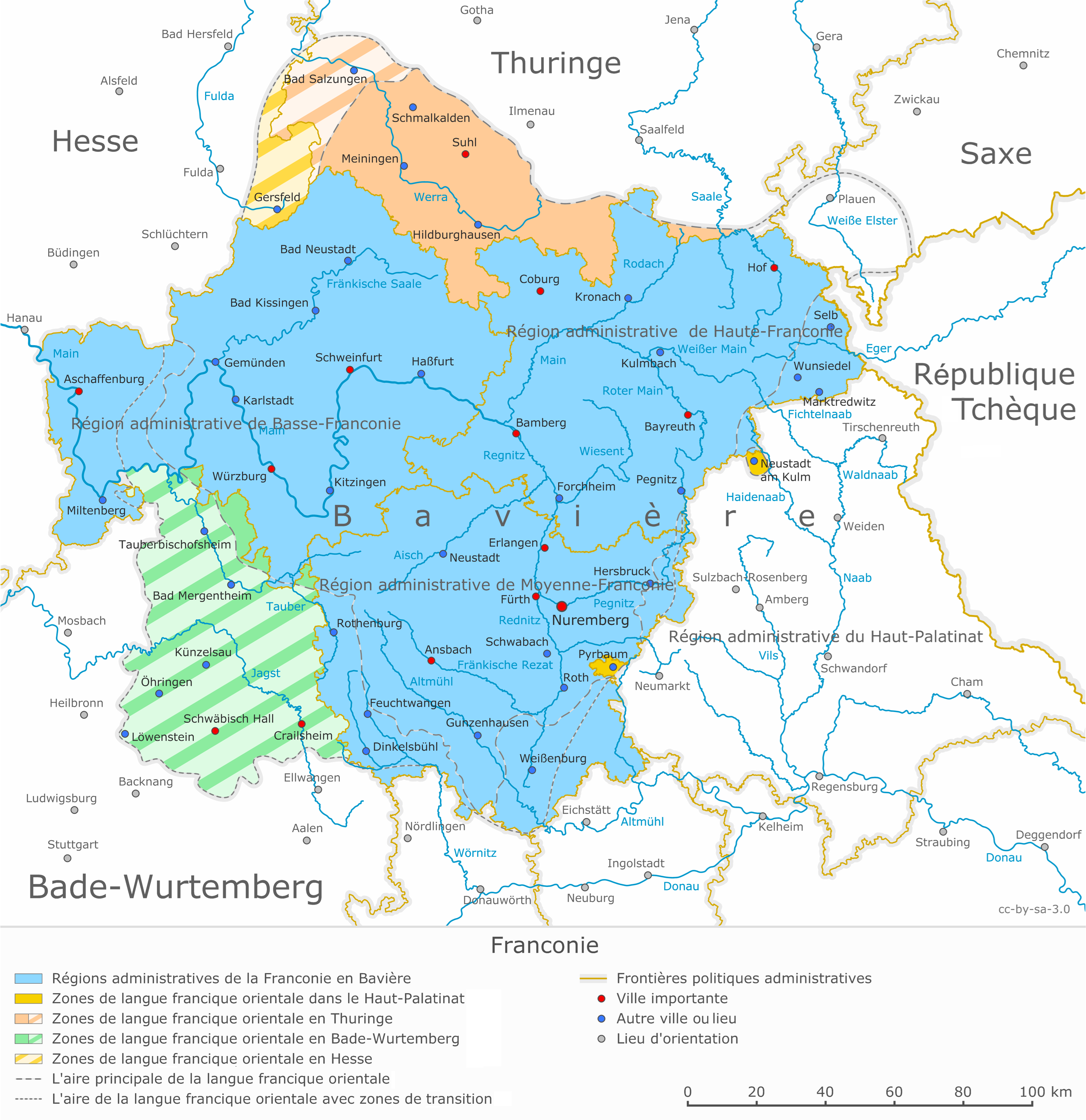 Franconia